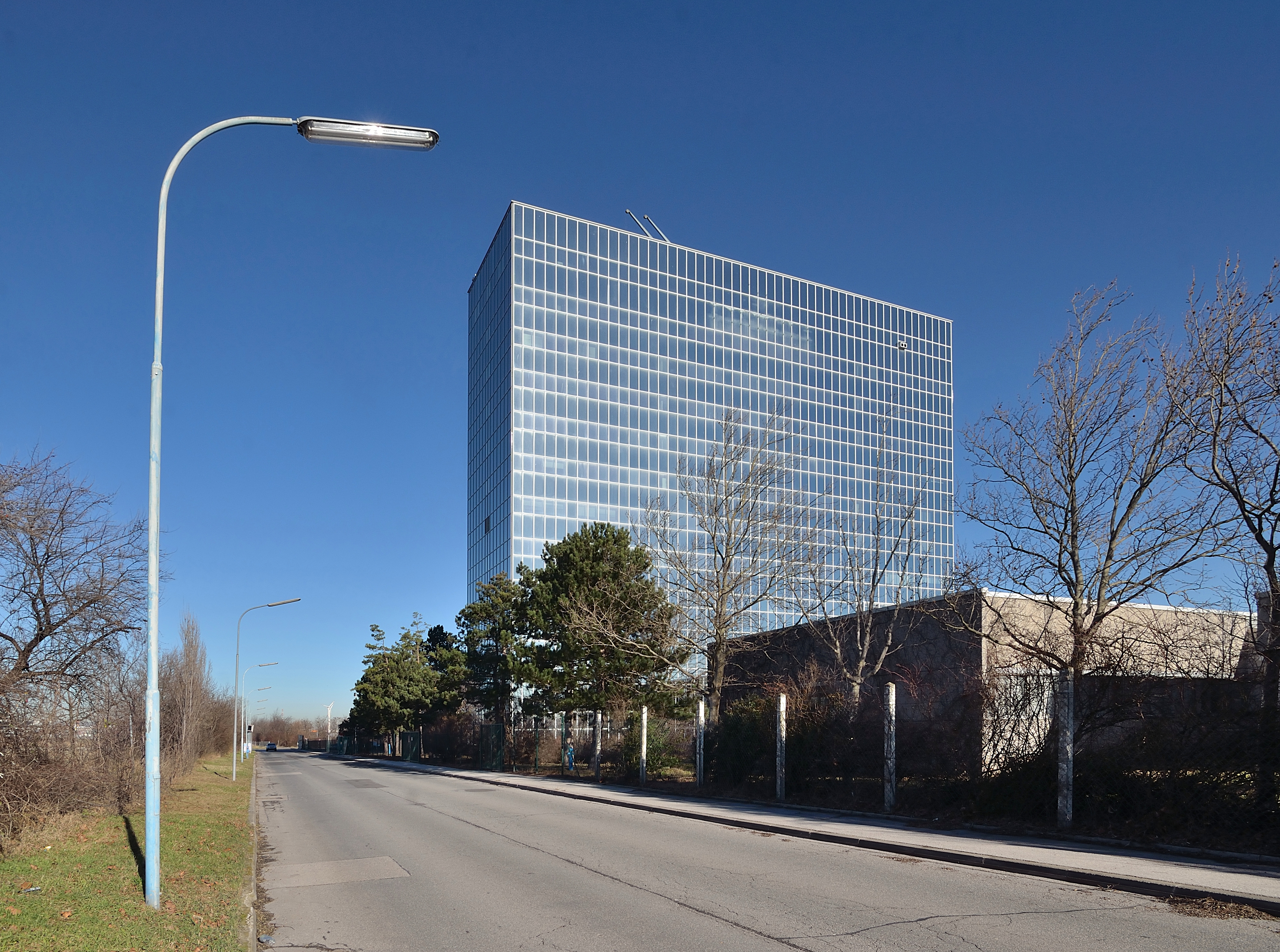 The building was created for Eumig in 1956. After insolvency of Eumig, the building was used by Palmers until 2014. It is located in the industry zone of Wiener Neudorf.